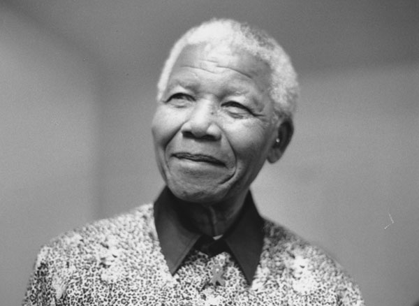 6th April 2000 Visit of Nelson Mandela to give a lecture at LSE on 'Africa and Its Position in the World.' Held at the Peacock Theatre. IMAGELIBRARY/575 Persistent URL